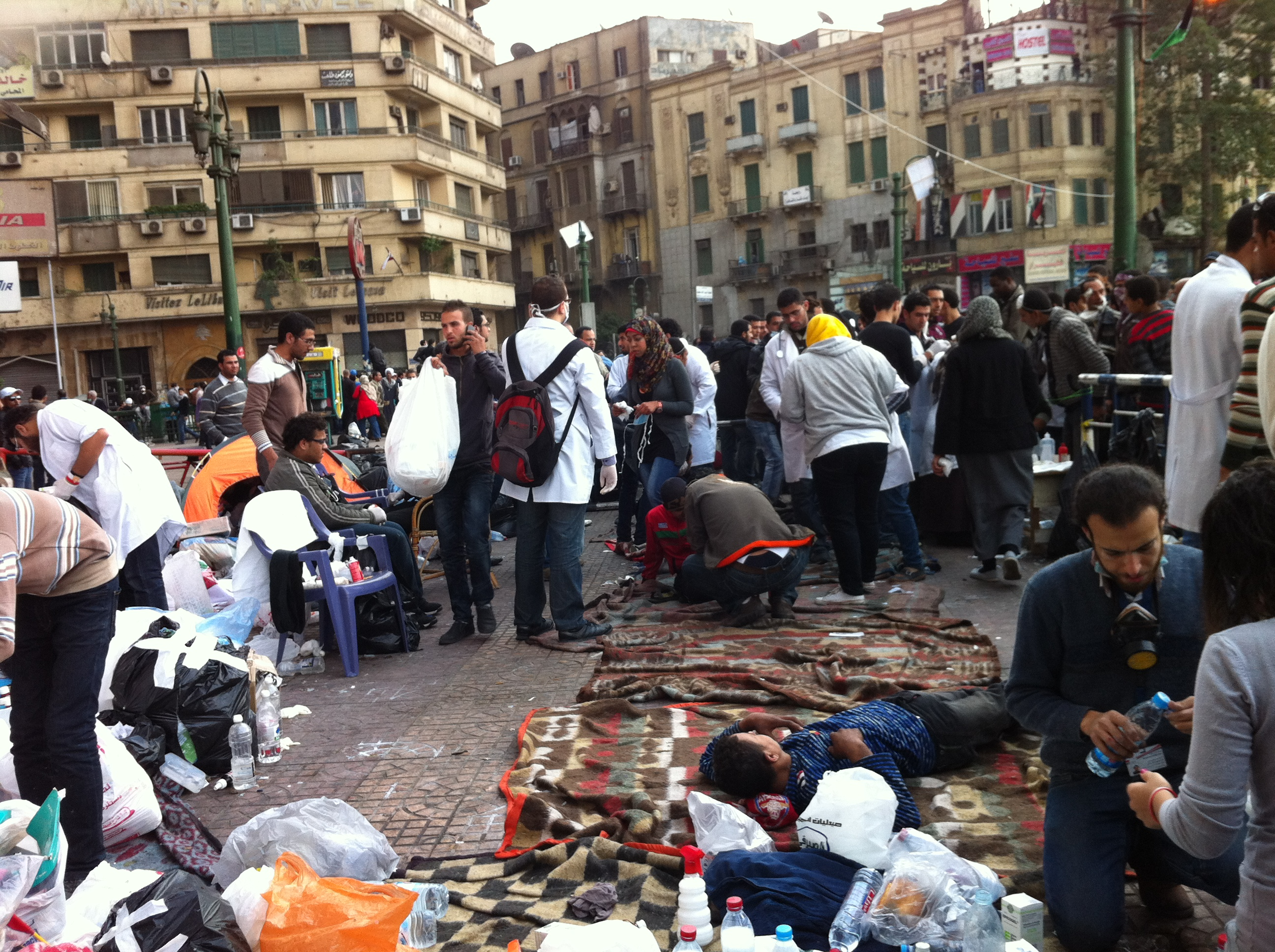 The clinics are the first stop for those injured in confrontations with security forces